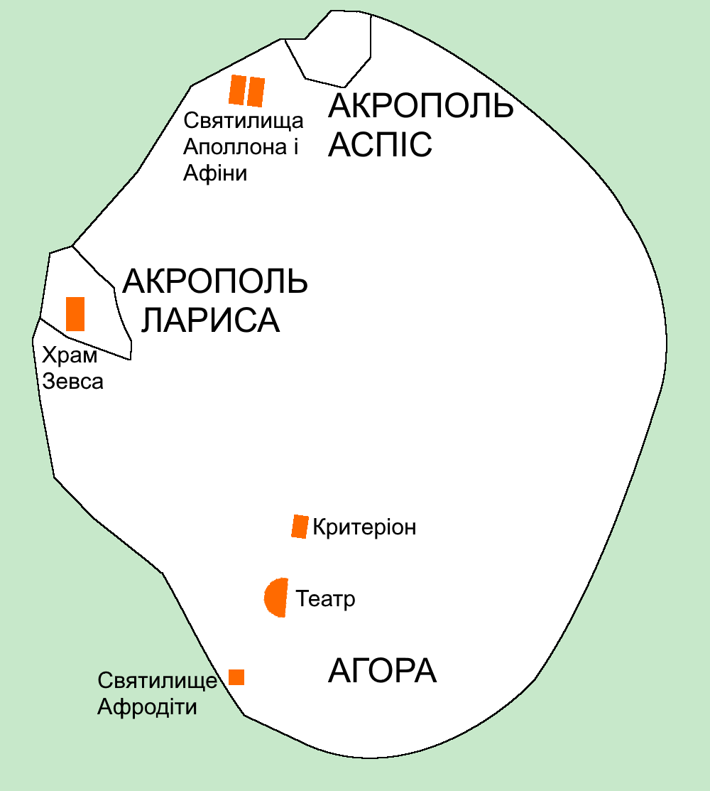 Map of Argos in the Classical Time